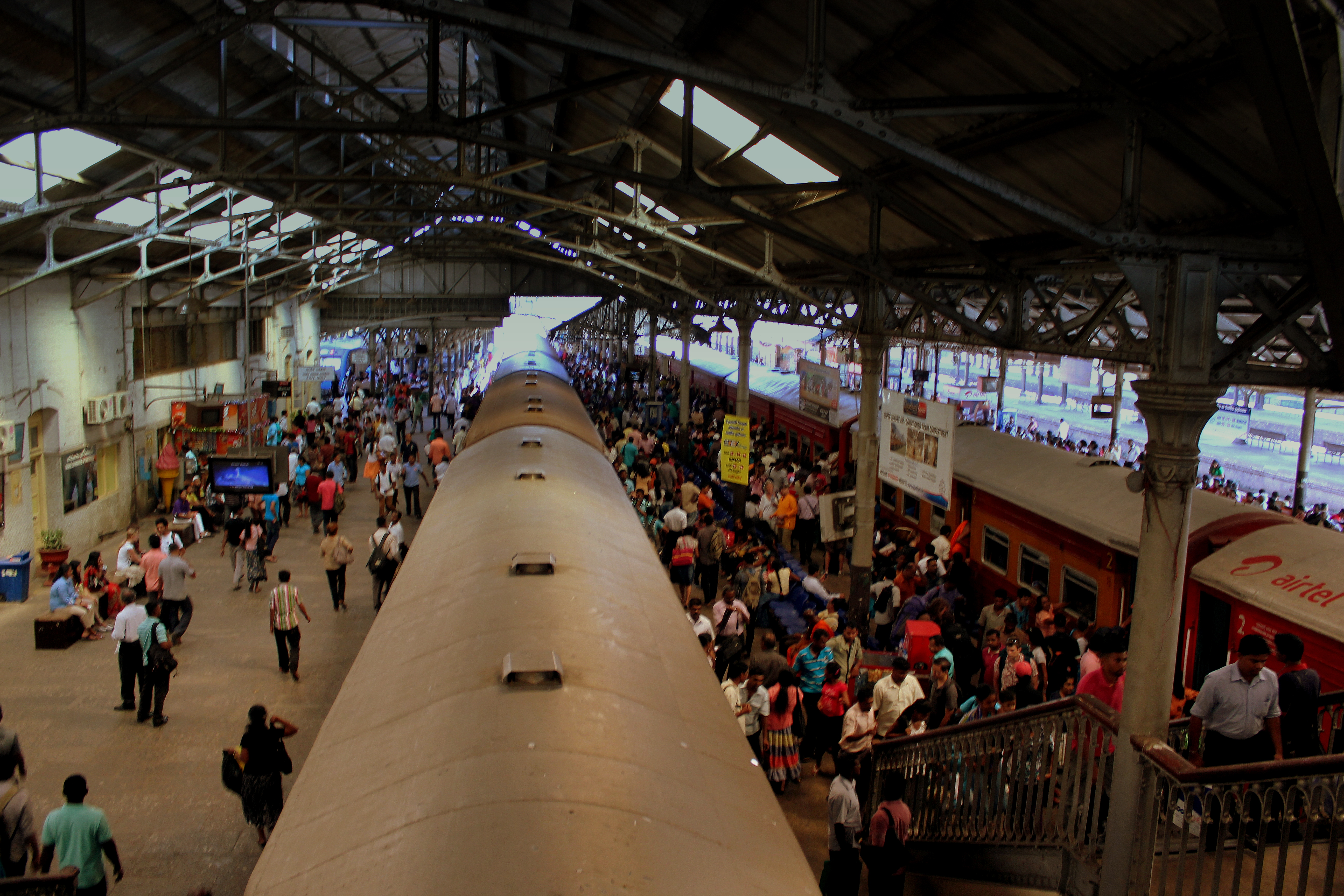 FORT STATION COLOMBO SRI LANKA JAN2013